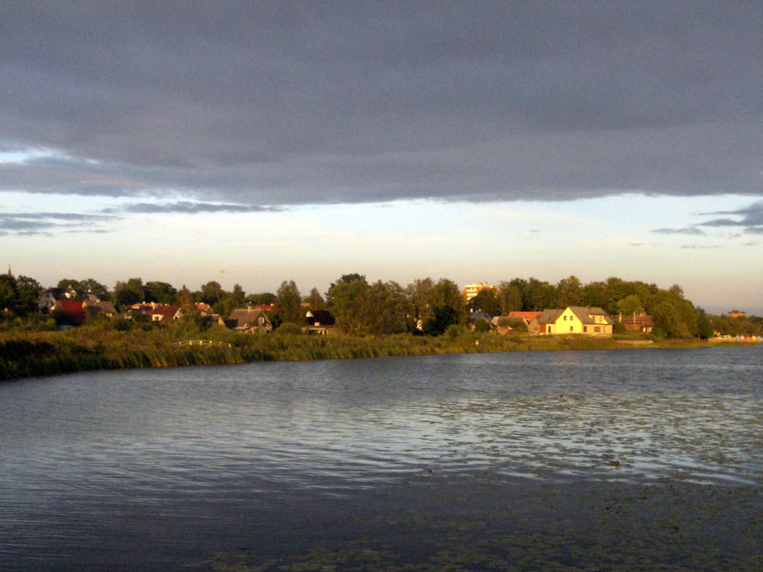 A view of Võru the lake of Tamula, Estonia, from the hanging bridge.